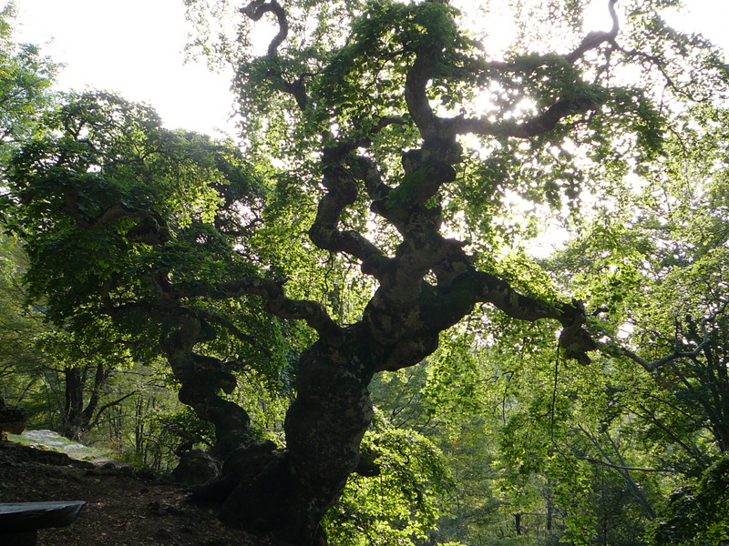 St. Francis Beech Tree in Rivodutri (province of Rieti, central Italy).